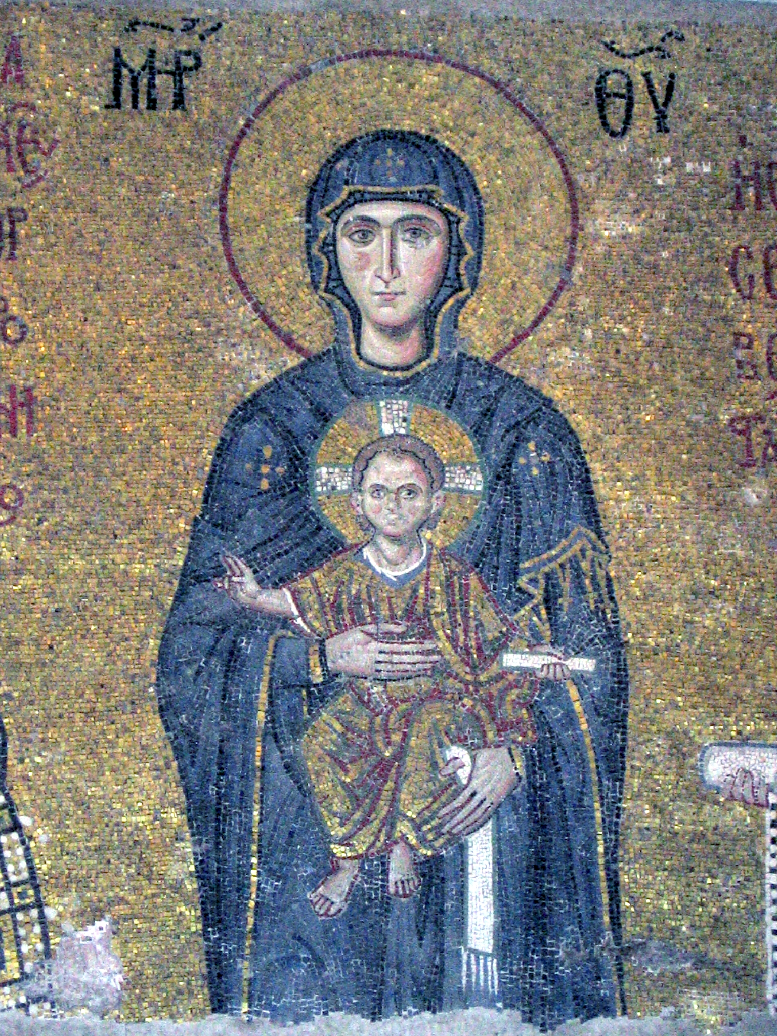 Byzantine mosaic of Madonna and Child of the eastern wall of the southern gallery of Saint Sophie, Hagia Sophia, Istanbul. Includes monogram Mater Theou ("mother of God").